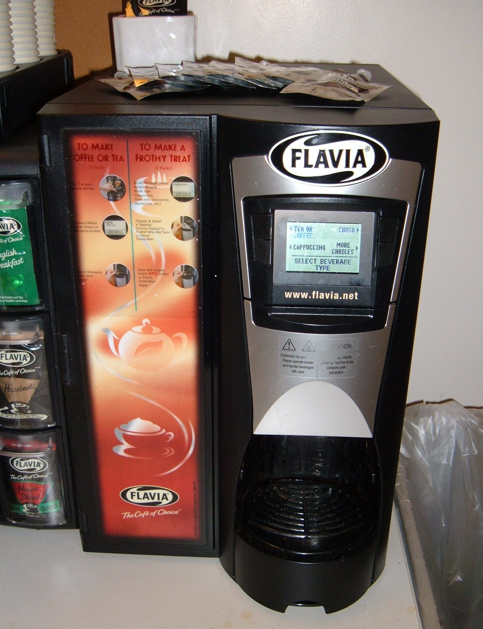 A Flavia coffee machine